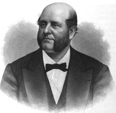 James Henry McLean (Missouri Congressman)